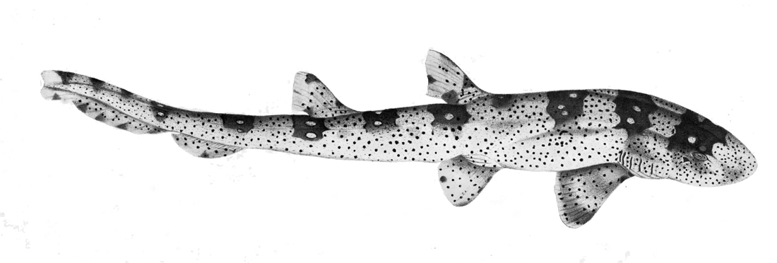 « Scyllum ornatum » = Chiloscyllium plagiosum (Whitespotted bamboo shark)